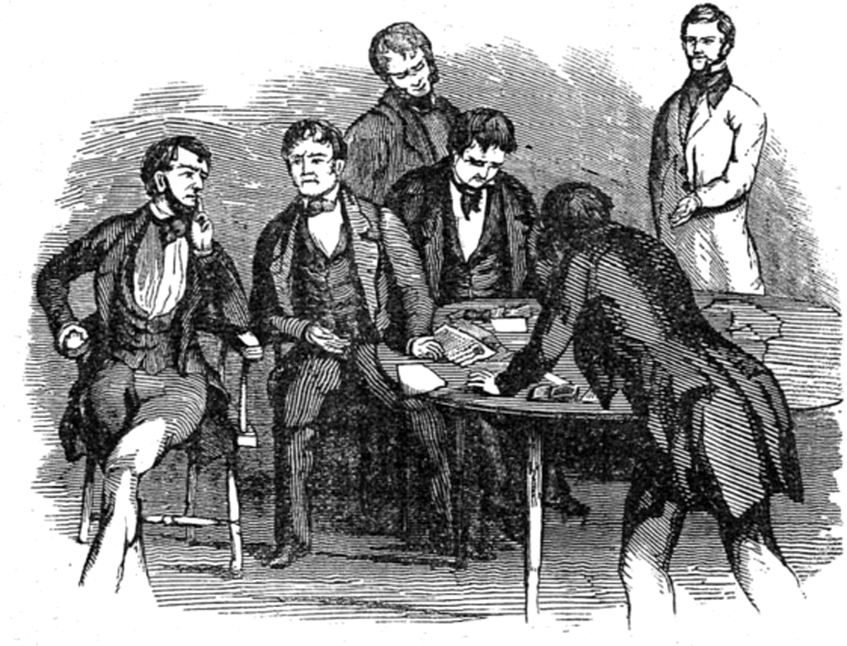 Engraving of trial of Monroe Edwards